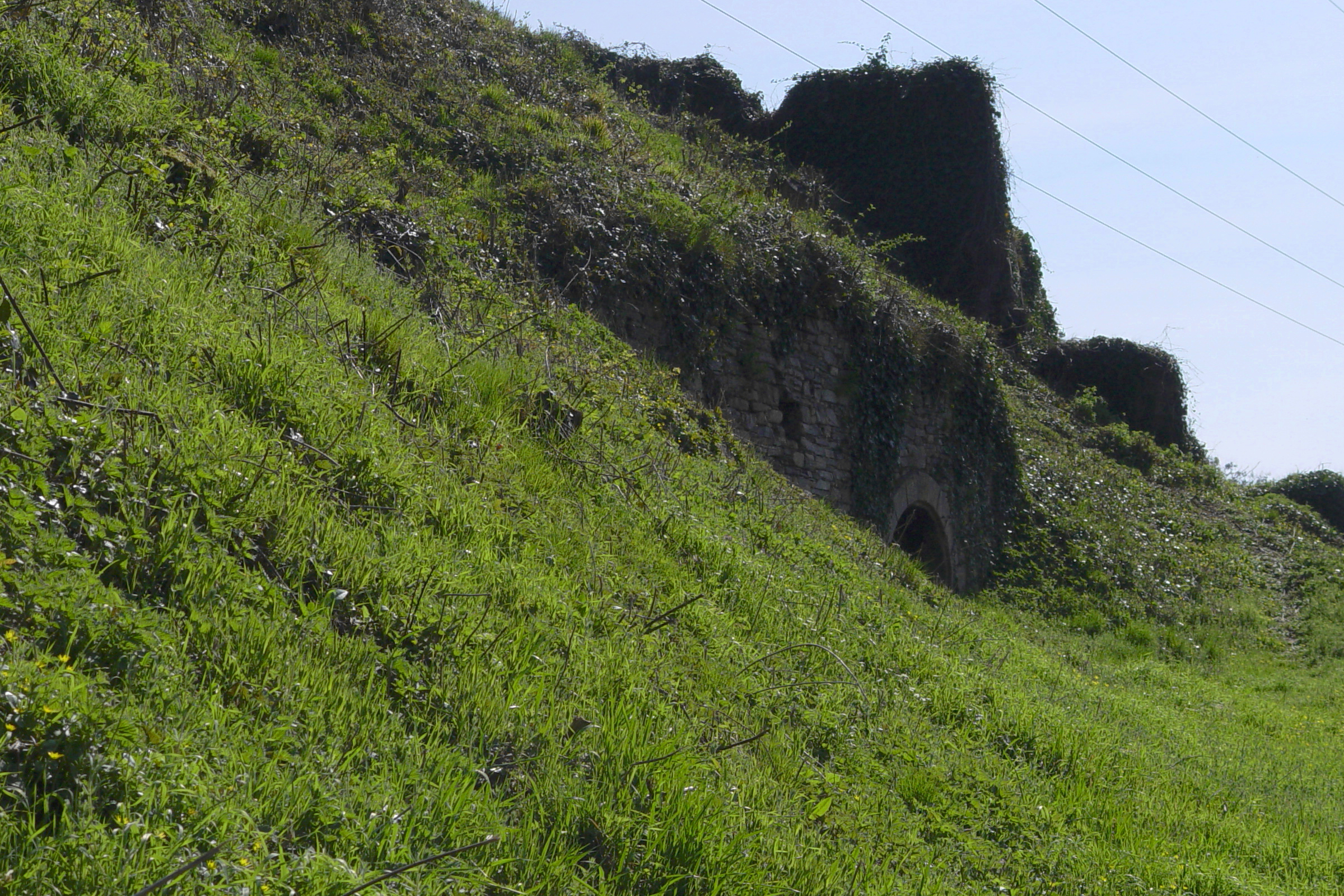 Aschaffenburg-Schweinheim, protected landscape element 9 "Bischberg Westhang" (LB-01226), part of nature park "Bayerischer Spessart"